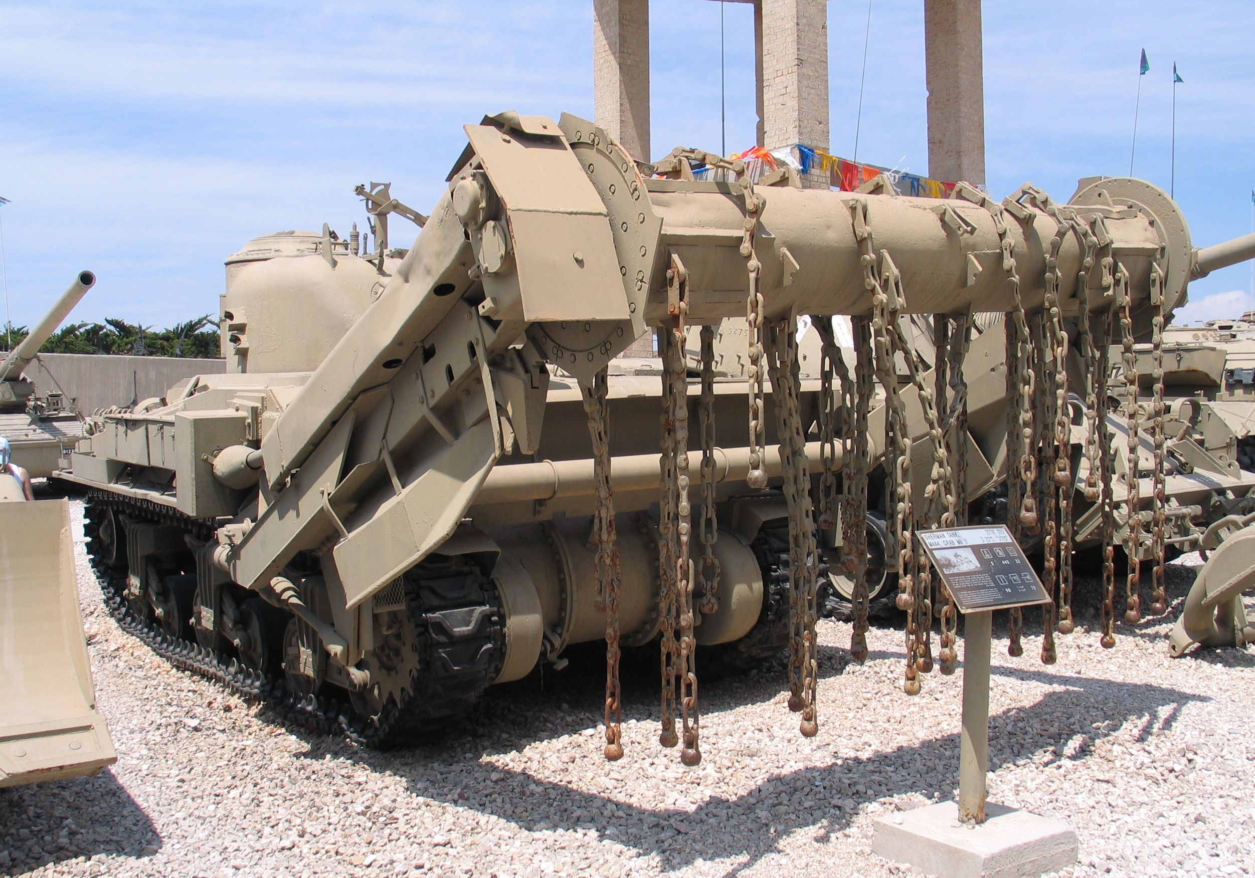 M4 Sherman with mine flail (IDF designation Sherman Morag) in Yad la-Shiryon Museum, Israel.